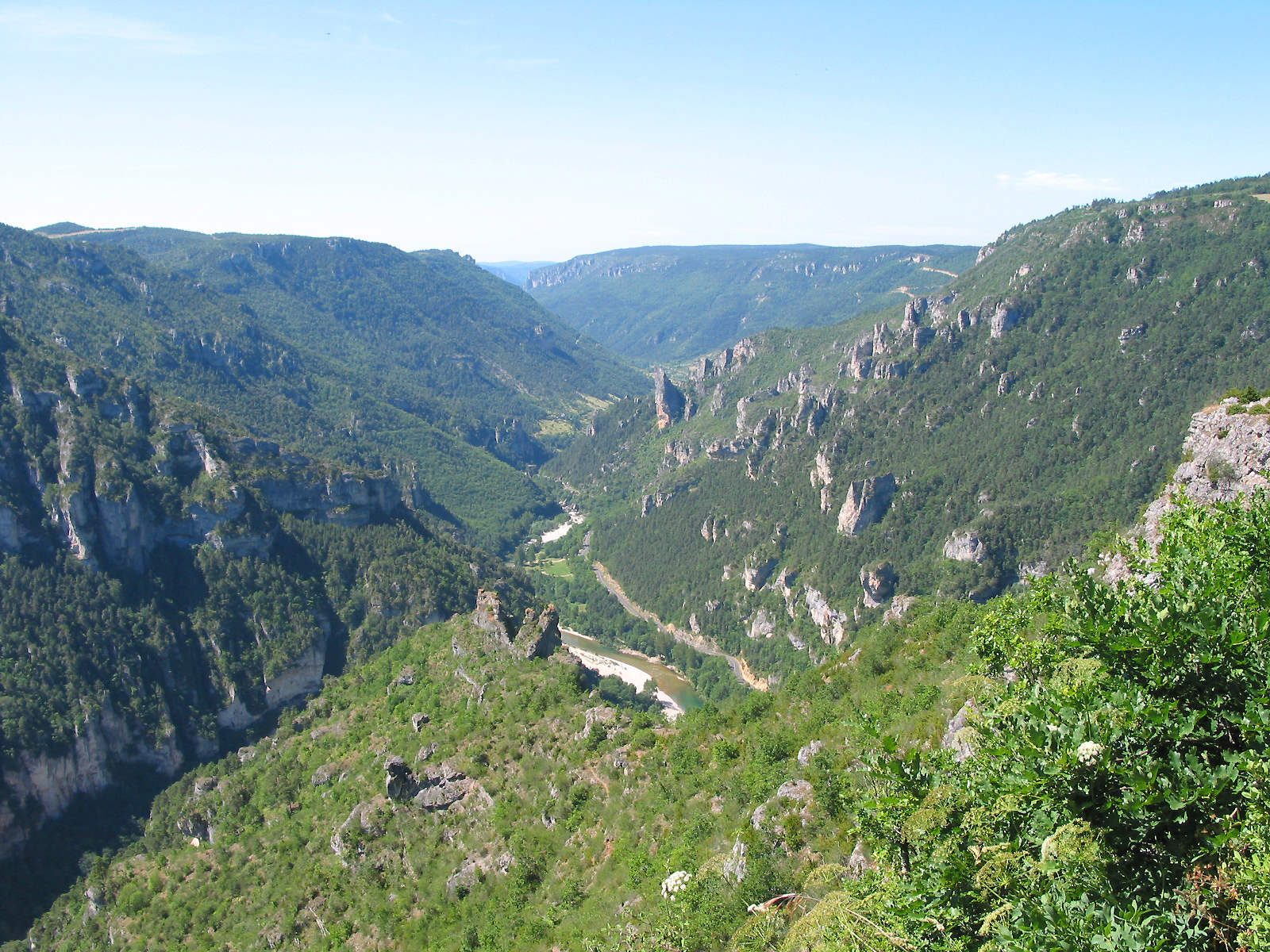 Saint-Georges-de-Lévéjac Lozère - France, the gorges du Tarn seen from the point sublime.